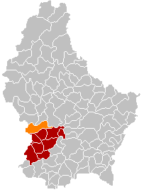 Location of the municipality of Habscht, Luxembourg; result of the merger of the municipalities of Hobscheid and Septfontaines, per 2018-01-01.